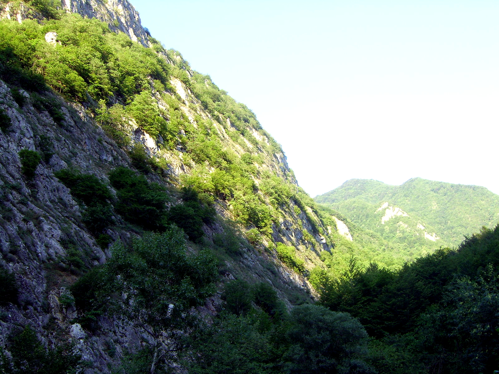 nature of Azerbaijan, near Guba